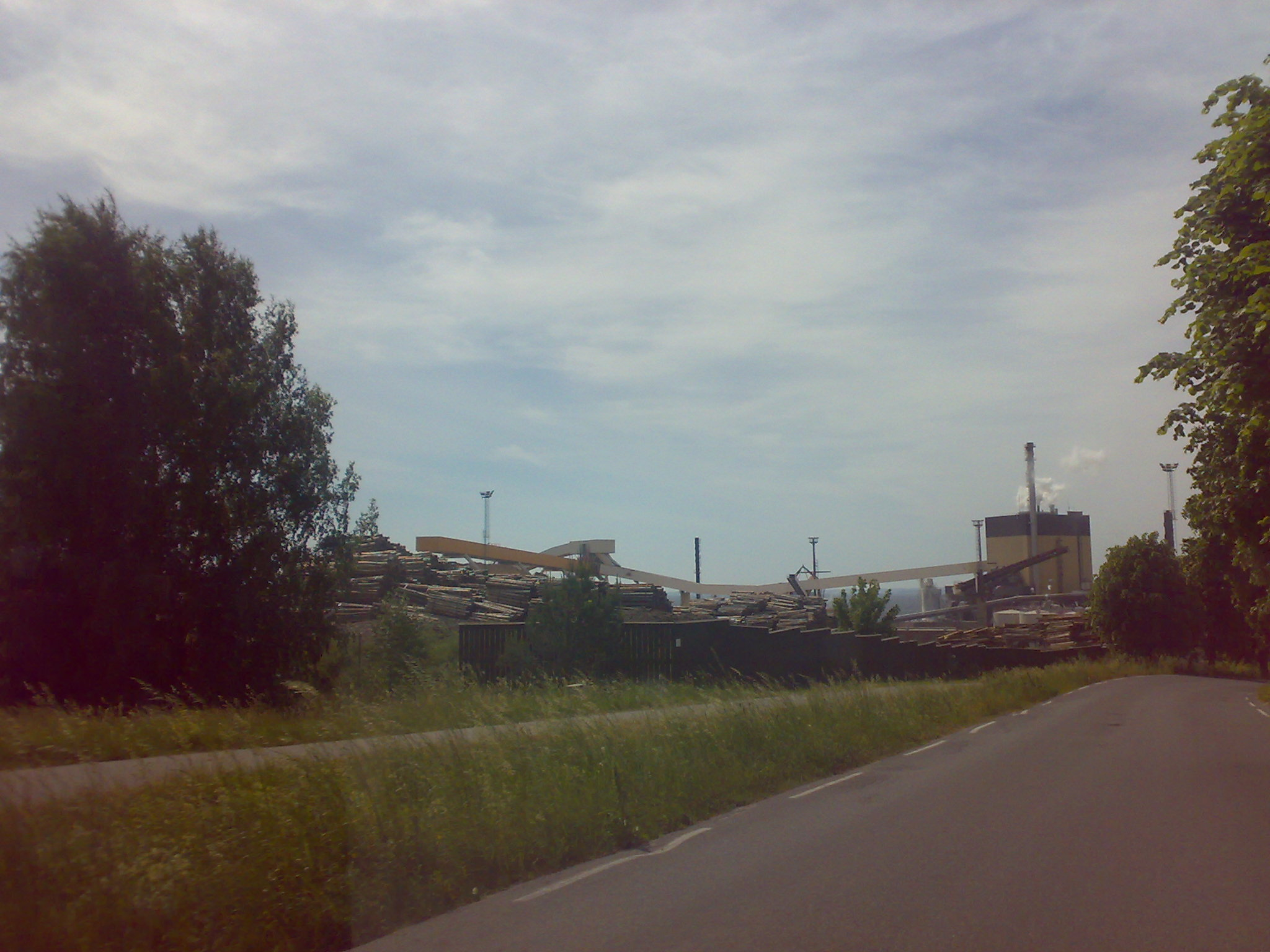 Tofte Cellulose Södra Cell Norway